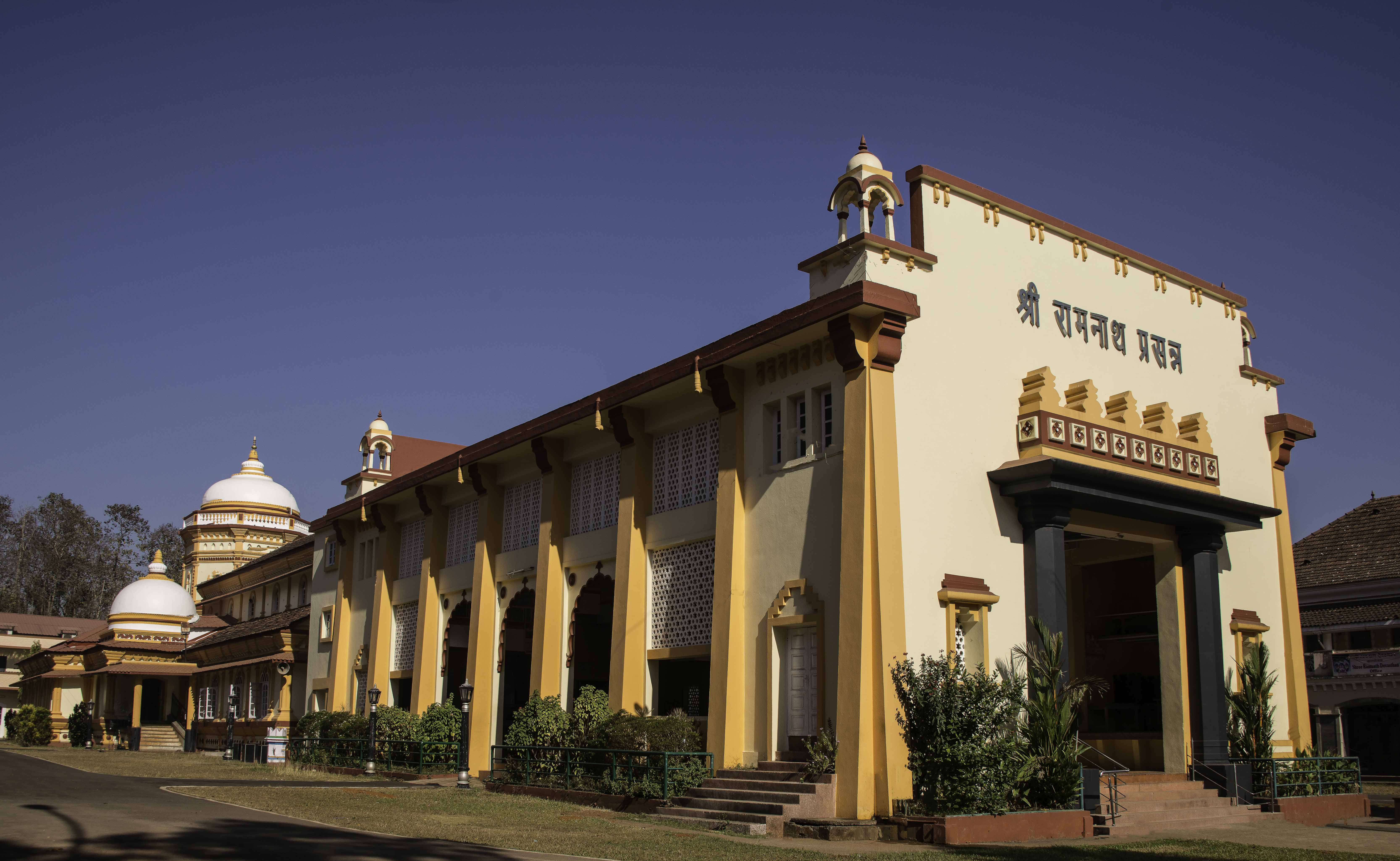 Main Entrance and Temple complex of Shri Ramnathi Temple.